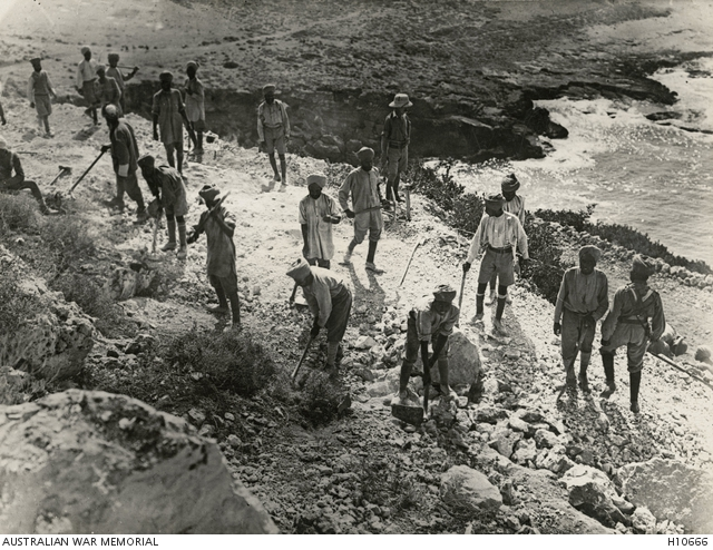 British Indian Army Sikh Pioneers building a new road on the most difficult section of the Ladder of Tyre in September/October 1918 during the pursuit of the Ottoman Yildirim Army. "The Sappers and Miners and 121st Pioneers of the 7th (Meerut) Division, assisted by infantry, working continuously for 2 days, made the 'Ladder of Tyre' fit for armoured cars, lorries and 60 pounder guns."